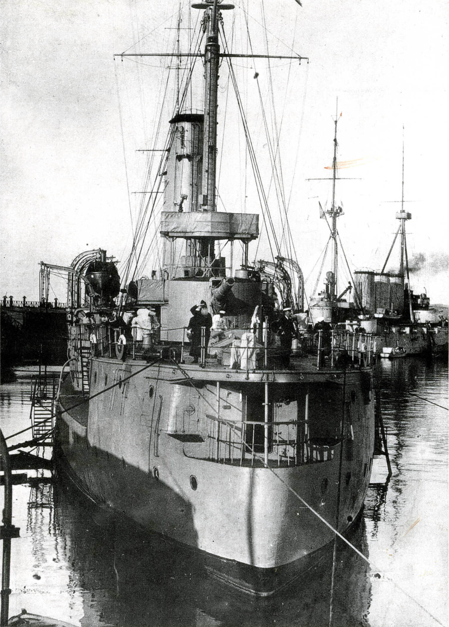 Armoured cruisers of the Russian Republic Navy Bayan and Ryurik at Reval, summer 1917.